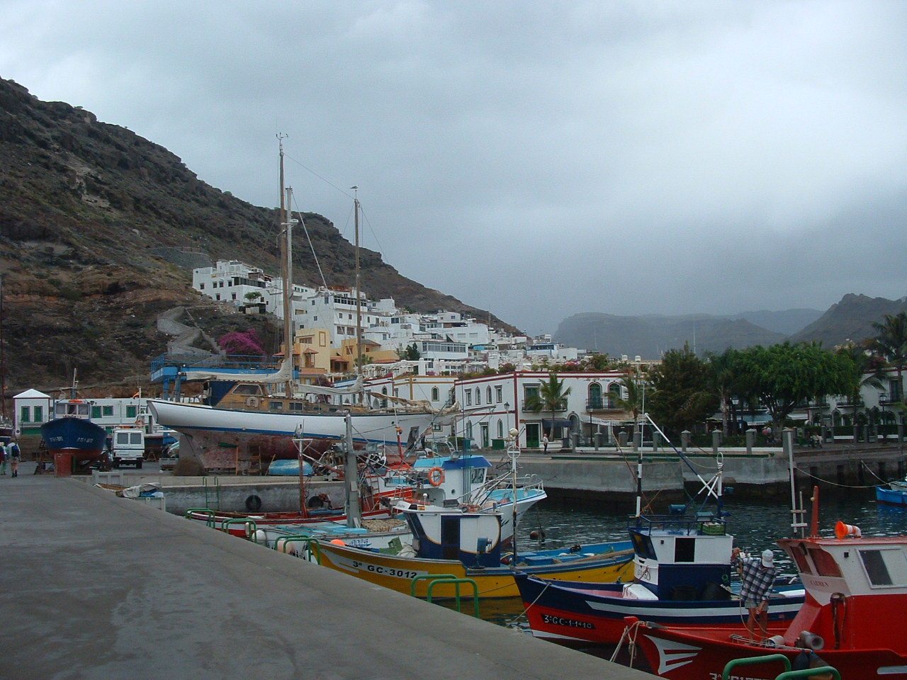 Puerto de Mogán Harbour town in Gran Canaria, Spain Photo taken my me Jarvin in december 2005